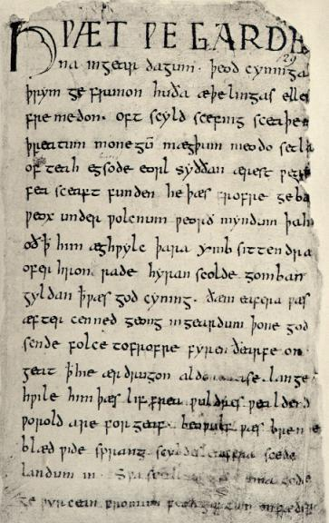 This is a public domain image from Kip Wheeler's homepage at Carson-Newman College. Kip Wheeler declared its status thus: "The original image of the Beowulf manuscript comes from the anonymous Anglo-Saxon scribe who wrote the 'Nowell Codex', Cotton Vitellius A.x.v. 129 r. It appears here as reproduced in Julius Zupitza's Beowulf: Autotypes of the Unique Cotton MS Vitellius A.xv. in the British Museum with a Transliteration and Notes. E.E.T.S. O.S. 77. London: Trubner & Co., 1882. This image is public domain."